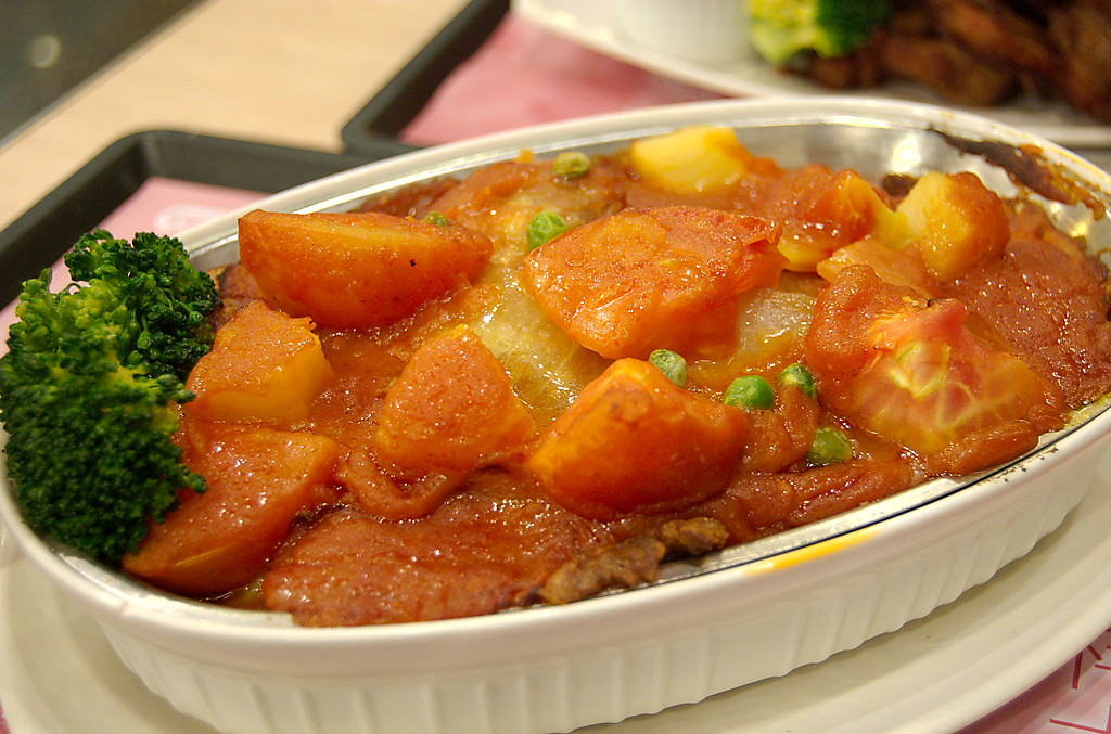 Baked pork chop rice from cafe de coral (a Hong Kong fast food shop)